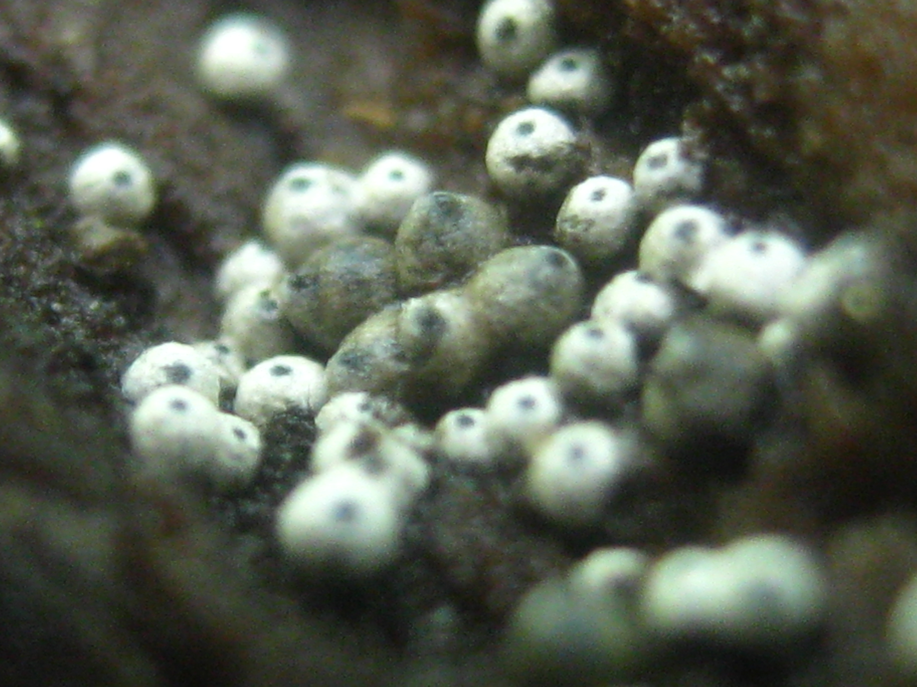 Lasiosphaeria sp. Image location: Ottawa, Ontario, Canada I forgot is name… Recognized by sight Used references: For more information about this, see the observation page at Mushroom Observer.